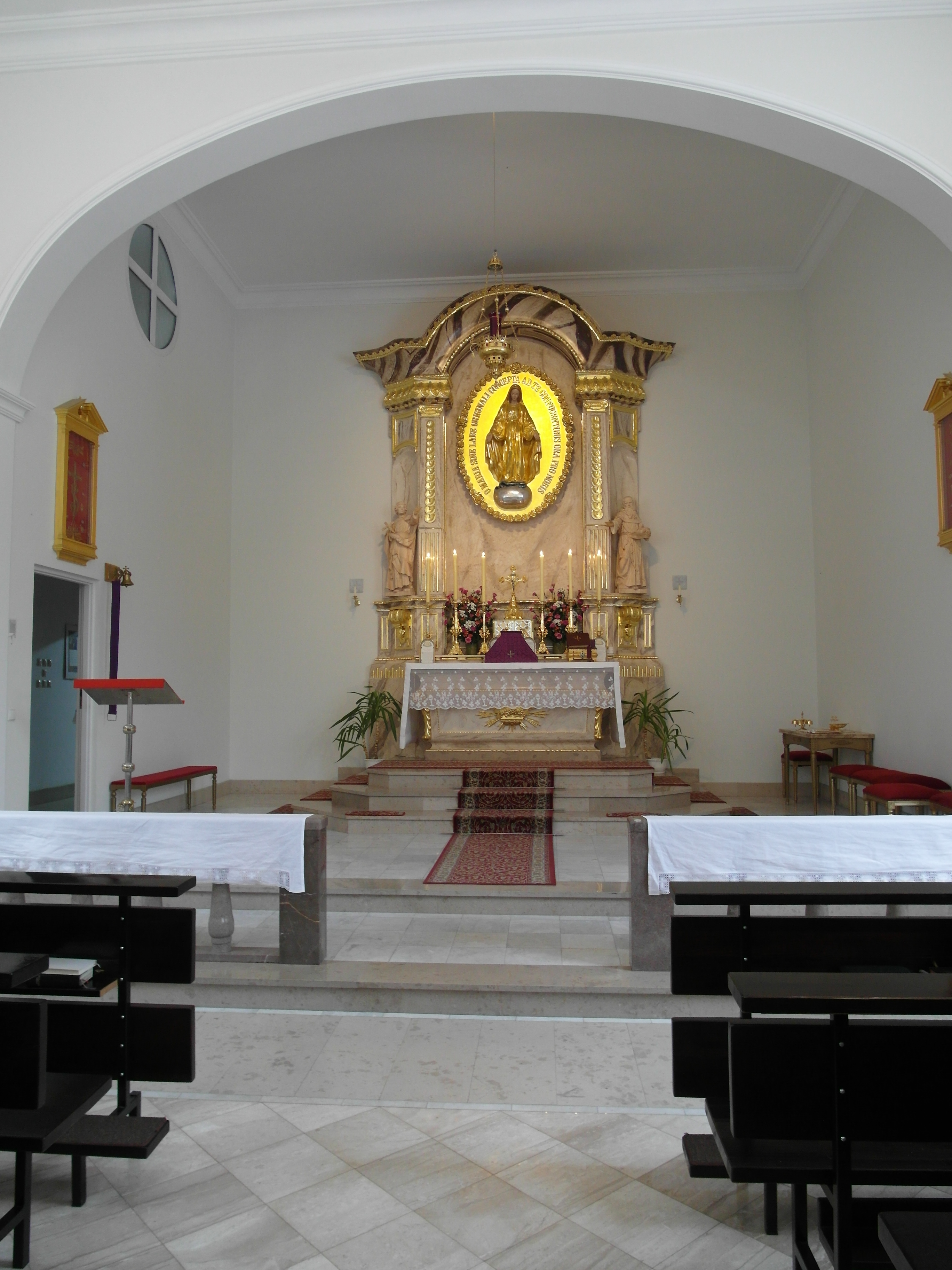 Kościół pw. Niepokalanego Poczęcia NMP przy warszawskim przeoracie FSSPX.